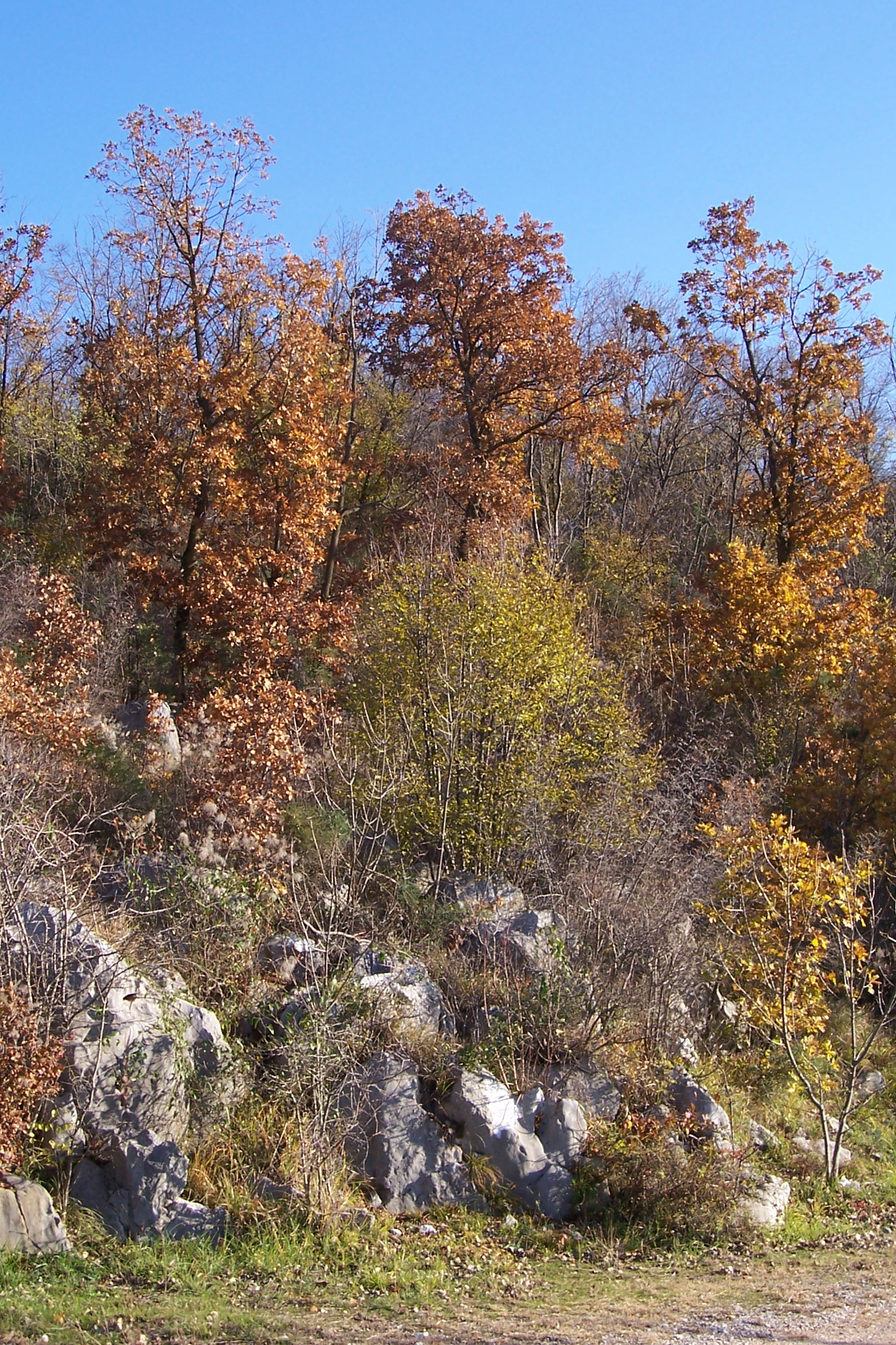 Karst landscape: vegetation (winter time). Quercus pubescens is covered by dry leaves (they will fall off in the spring).